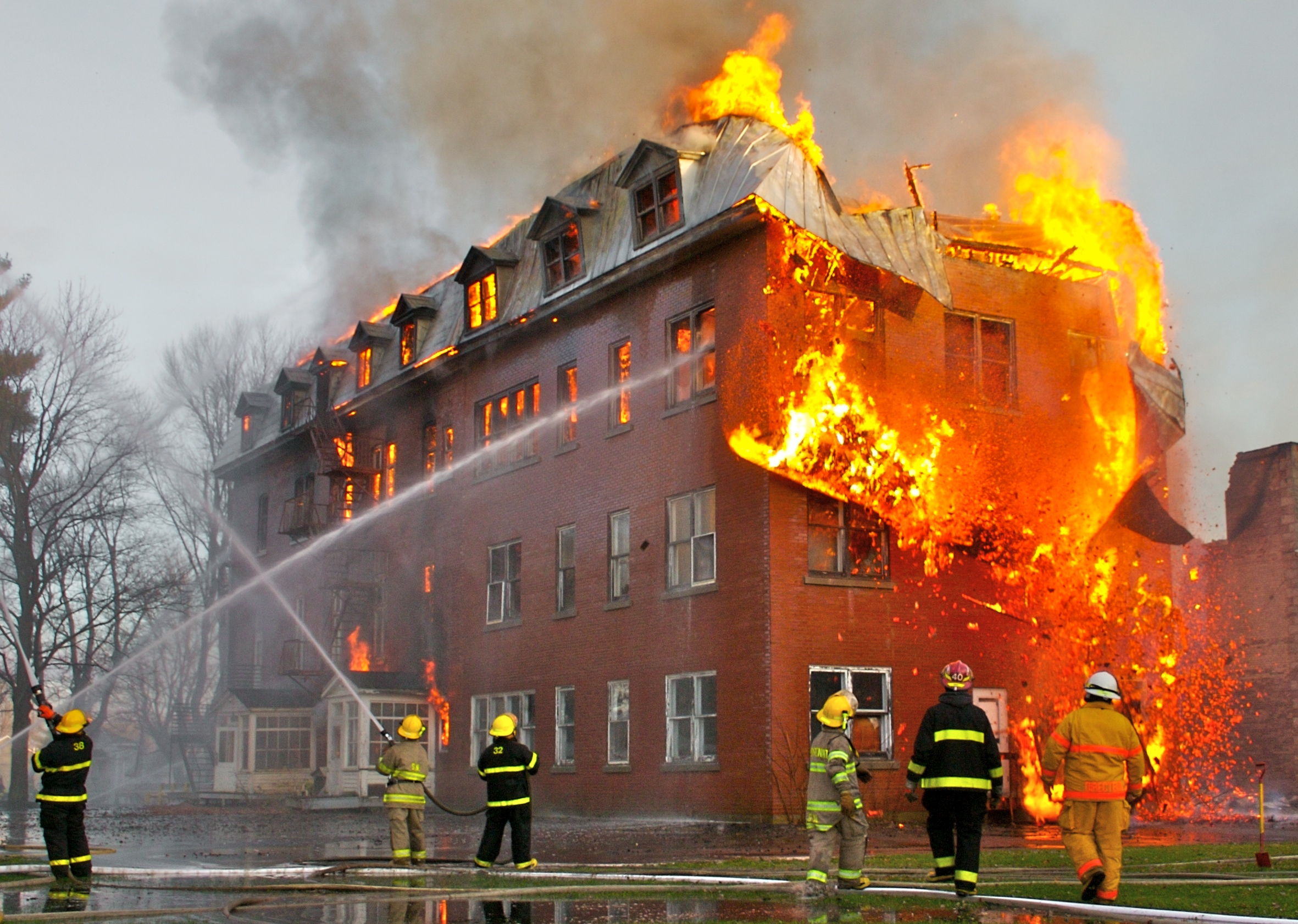 A photograph of a major fire. This photograph was taken during a major fire involving an abandoned convent in Massueville, Quebec, Canada. The fire was so violent that firefighters had to focus their efforts on saving the adjacent church instead of attacking the involved building. This photograph is a good example of what can be done with specialized fire photography, as the public did not have access to this extraordinary point of view and it was necessary to have fire photographer credentials to take pictures from there.